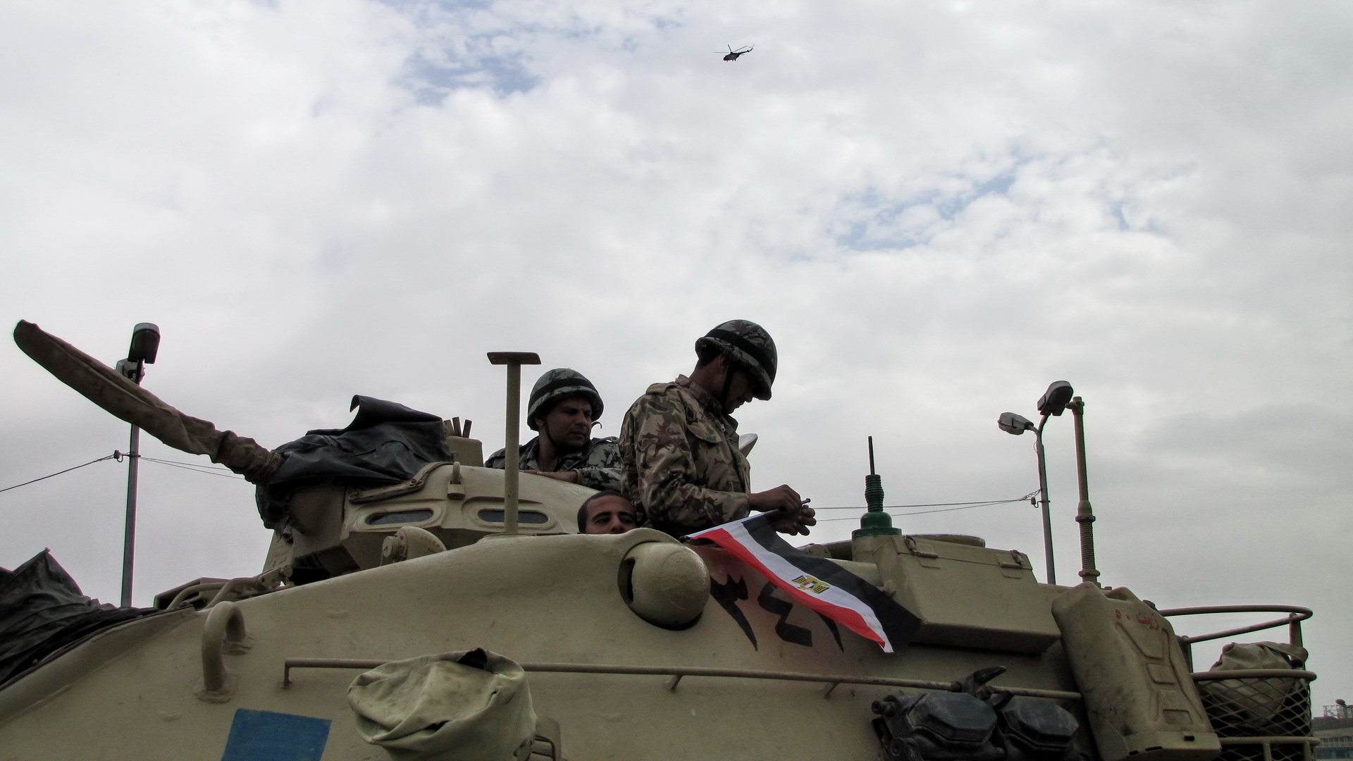 An Egyptian Army soldier prepares to affix his national flag on his tank near the Qasr al-Nil Bridge, Cairo, during the Egyptian Revolution of 2011. A helicopter flies overhead